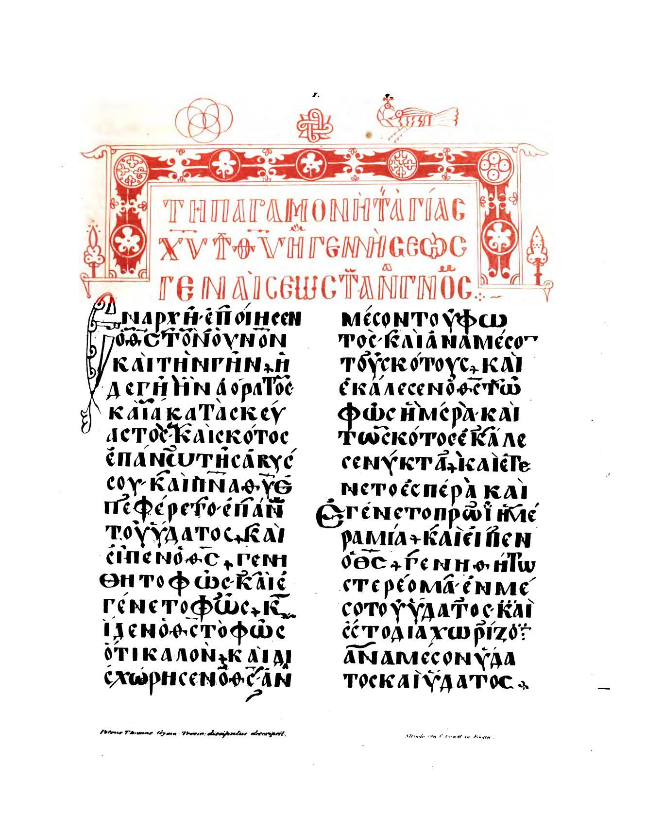 biblical lectionary manuscript with lessons from the Old and New Testament